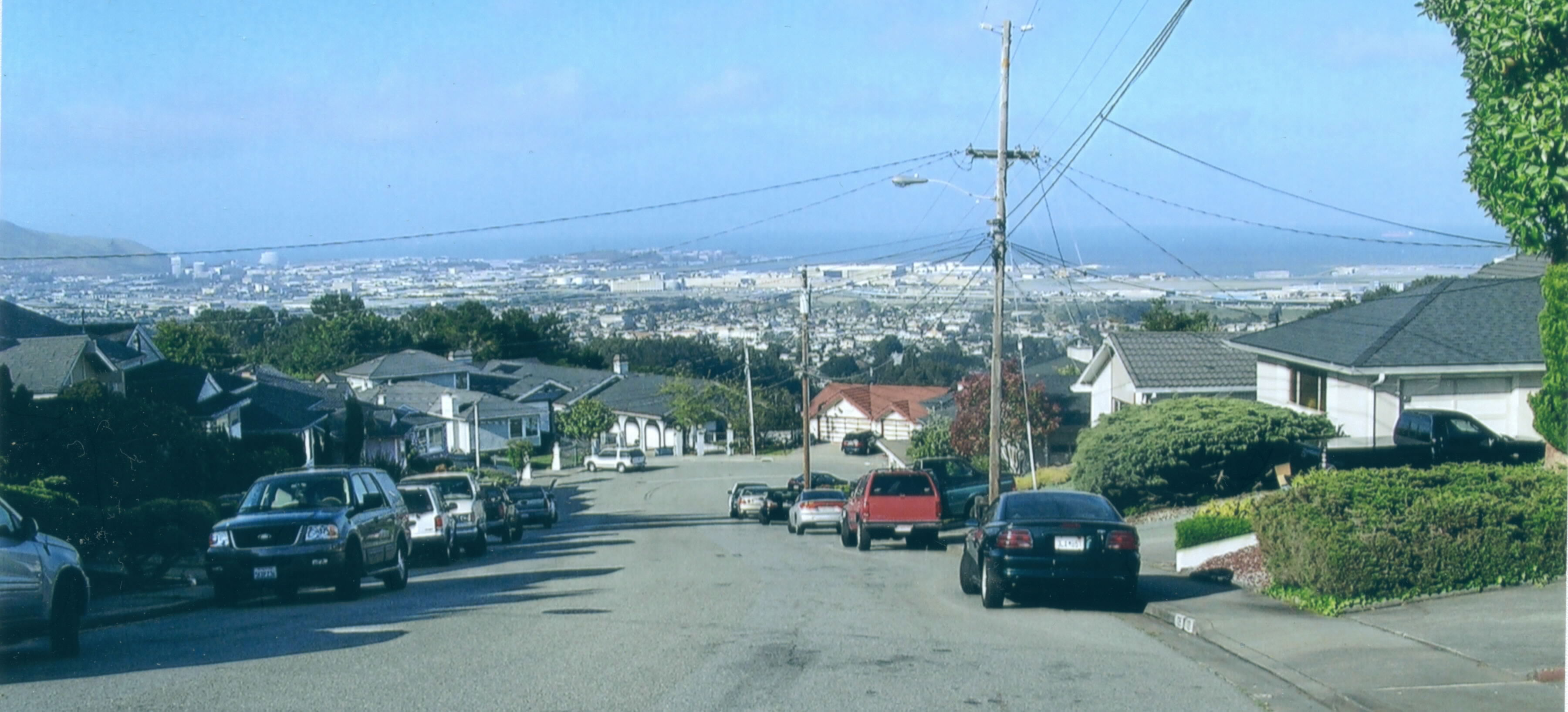 San Bruno, California, panorama, looking toward San Francisco Bay (Robert E. Nylund, 2006)